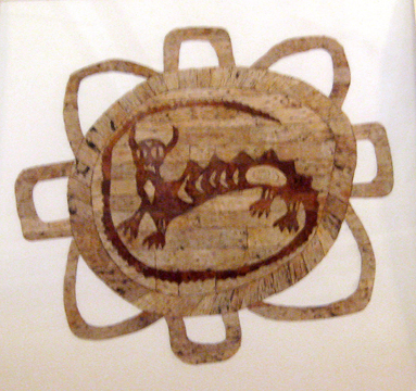 image of Underwater Panther, from the National Museum of the American Indian, George Gustav Heye Center library.